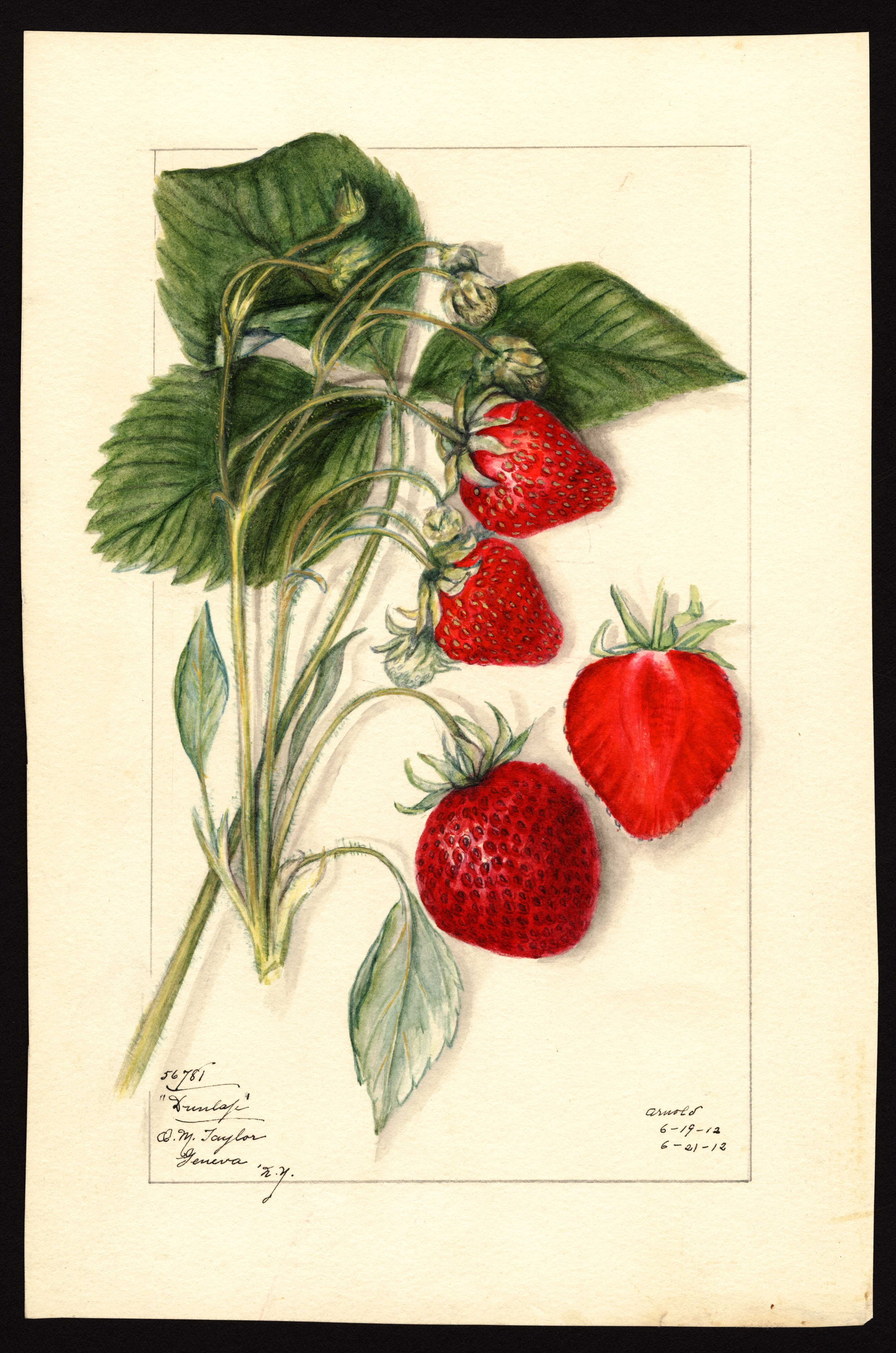 Image of the Dunlap variety of strawberries (scientific name: Fragaria), with this specimen originating in Geneva, Ontario County, New York, United States. Source: U.S. Department of Agriculture Pomological Watercolor Collection. Rare and Special Collections, National Agricultural Library, Beltsville, MD 20705.